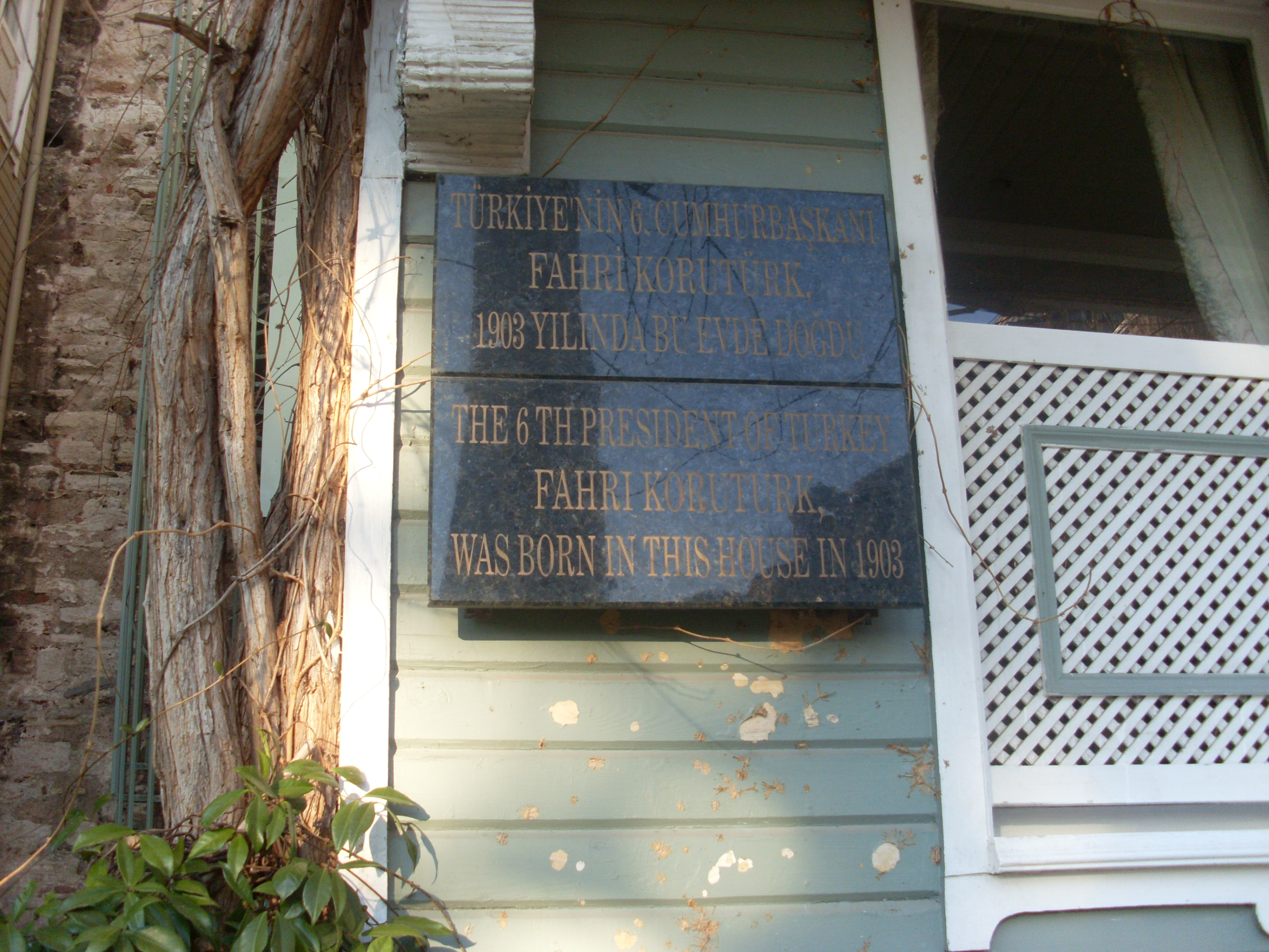 İstanbul - Soğukçeşme Sokağı r4 - Mar 2013